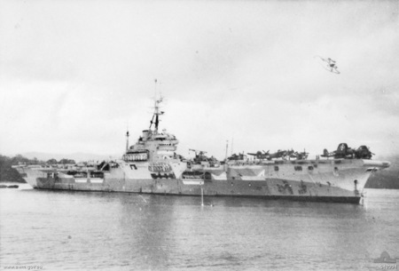 The Royal Navy aircraft carrier HMS Glory (R62) anchored at Rabaul, New Britain, Birmarck Archipelago, in September 1945.